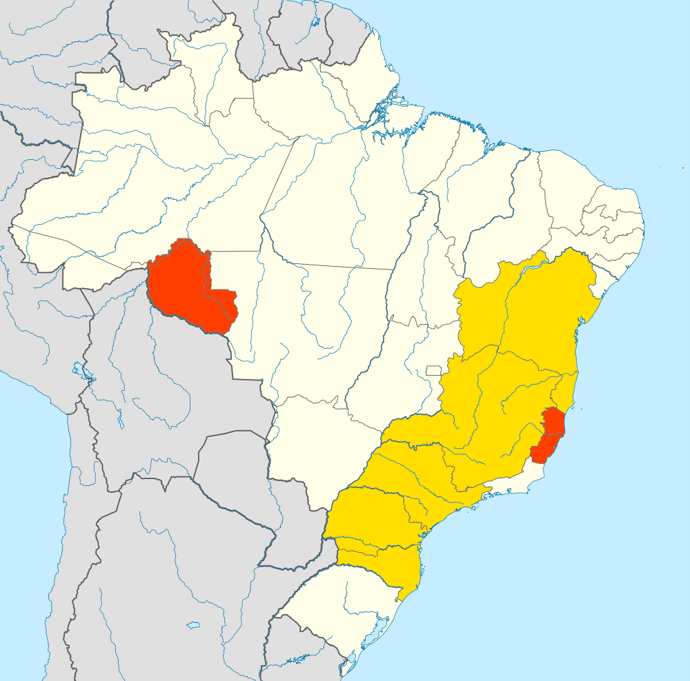 Brazilian coffee growing regions (arabica and robusta) Arabica Robusta Arabica (in yellow): Bahia, Minas Gerais, São Paulo, Paraná, Santa Catarina Robusta (in orange): Espírito Santo, Rio de Janeiro, Rondônia Source: Ricardo M. Souza (editor) (2008) Plant-Parasitic Nematodes of Coffee, Springer, p. 226 ISBN: 978-1-4020-8720-2.